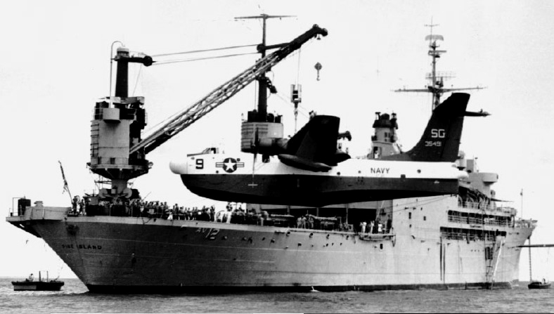 A U.S. Navy Martin SP-5B Marlin (BuNo 135491) from Patrol Squadron VP-50 being hoisted aboard the seaplane tender USS Pine Island (AV-12) at Cam Ranh Bay, Vietnam.